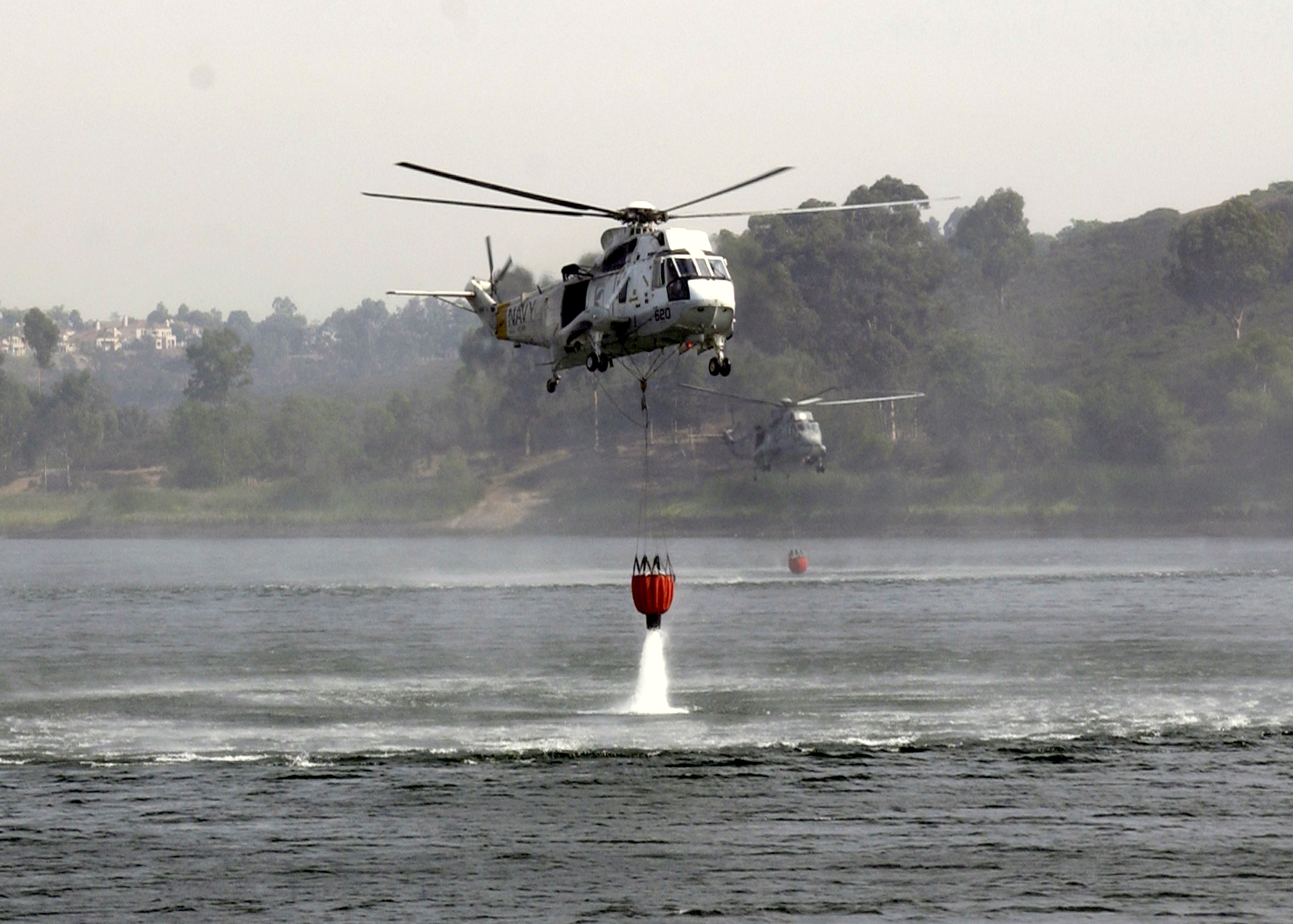 Lake Miramar, San Diego, Calif. (Oct. 29, 2003) -- Two UH-3H Sea King helicopters assigned to the “Golden Gaters” of Helicopter Combat Support Squadron Eighty Five (HC-85) dip their "Bambi” Buckets into Lake Miramar during an aircraft certification training flight. Once certified, Navy personnel will assist in fire fighting efforts against wildfires raging throughout Southern Calif. Each bucket can hold 324 gallons of water weighing 3000 lbs. U.S. Navy photo by Photographer's Mate Airman Andrew Betting. (RELEASED)